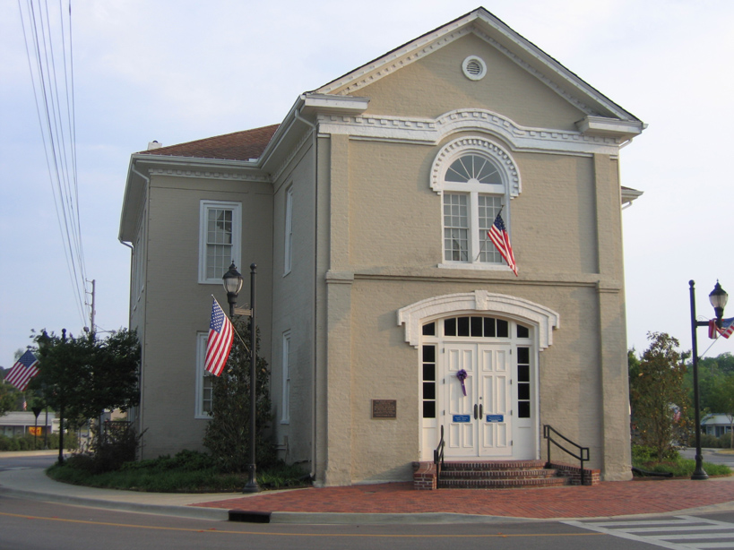 Old Shelby County Courhouse. Columbiana, AL.